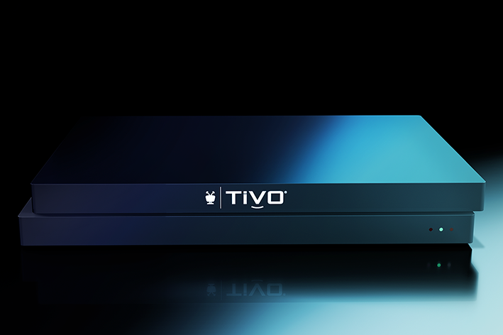 Front view of a TiVo EDGE DVR For Cable